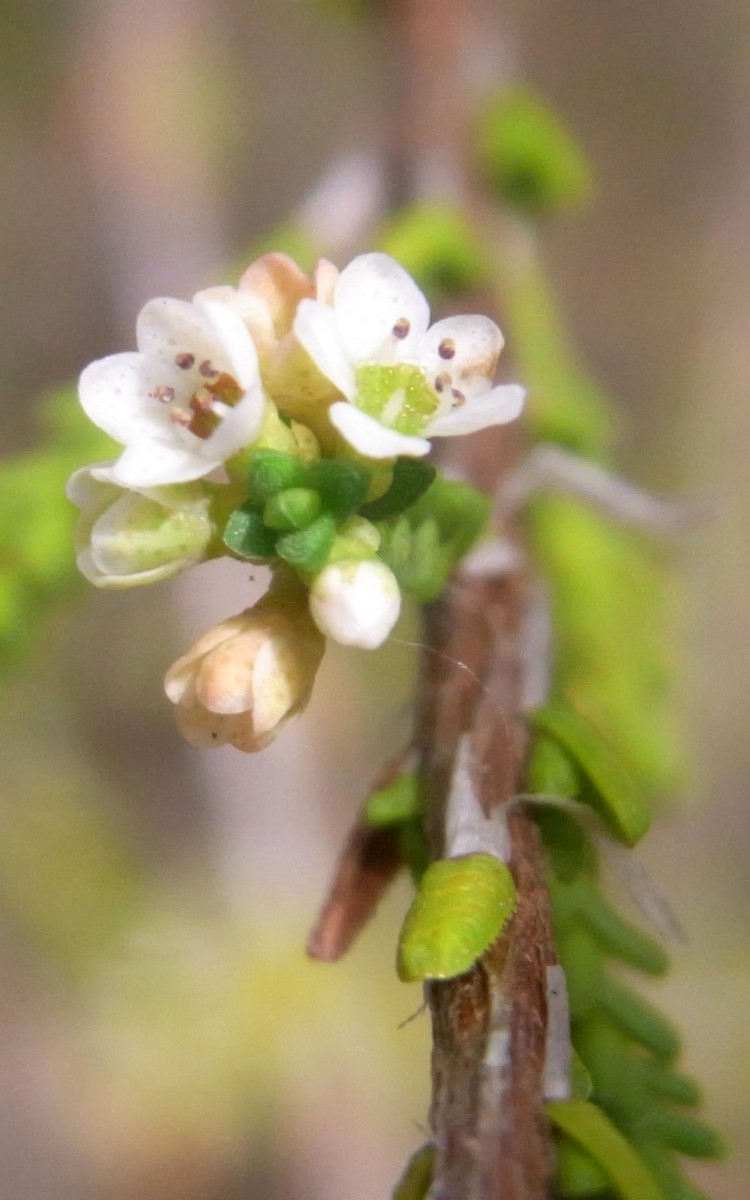 Micromyrtus minutiflora, labeled at Mt Annan Botanic Gardens, Australia